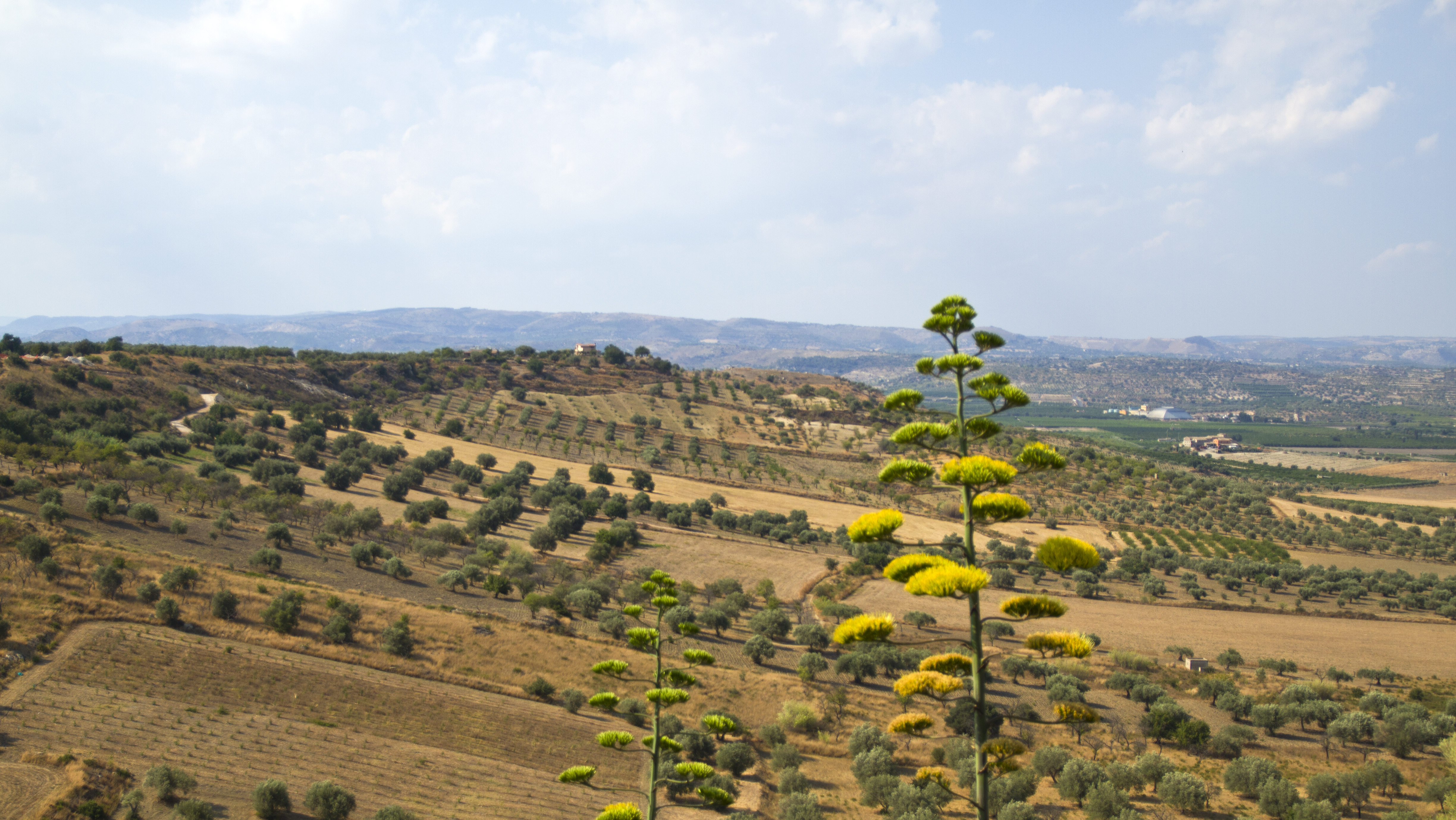 Noto, Province of Syracuse, Italy